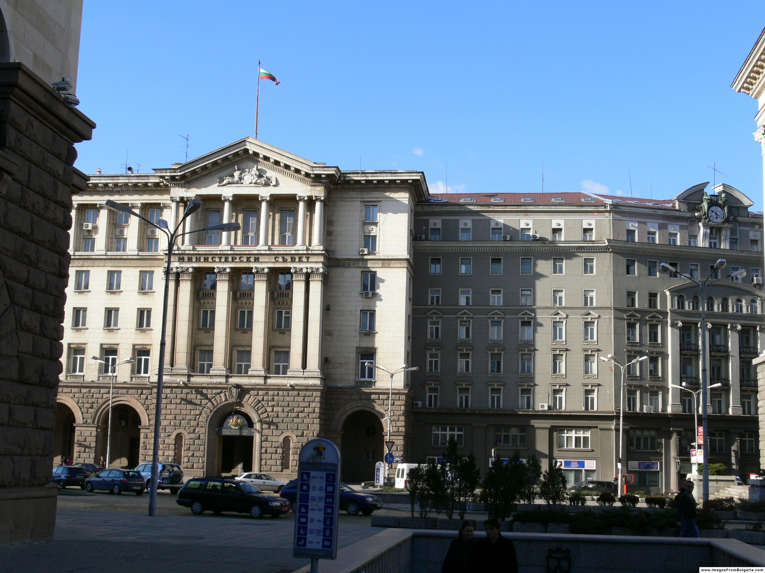 The building of Council of Ministers of Bulgaria. Sofia, Bulgaria